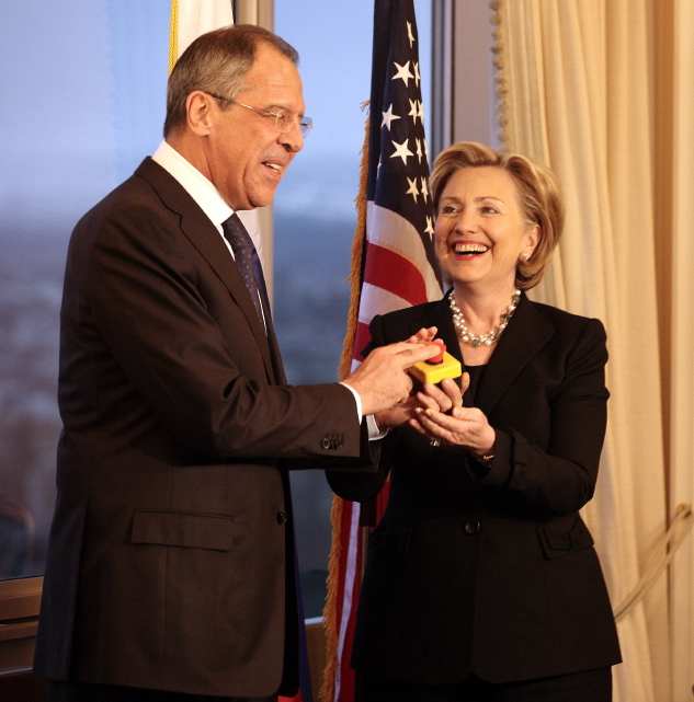 "Restart Button" offered by U.S. Secretary of State Hillary Rodham Clinton to Russian Foreign Minister Sergey Lavrov in Geneva, Switzerland March 6, 2009. [State Department photo]